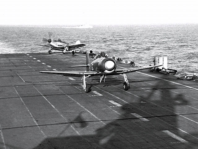 A Royal Canadian Navy Hawker Sea Fury and a Fairey Firefly aboard the aircraft carrier HMCS Magnifcent (CVL 21).